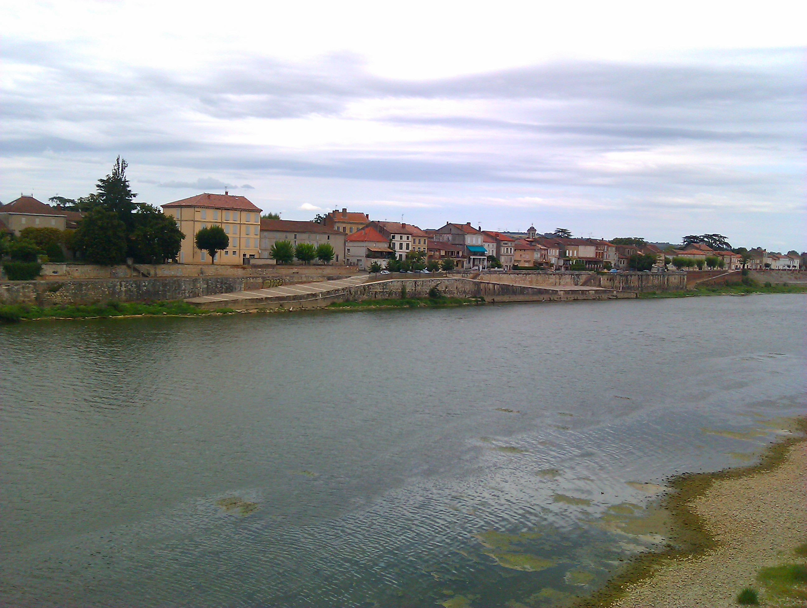 Picture of village of LaMagistere in Souther France from accross the Garonne river